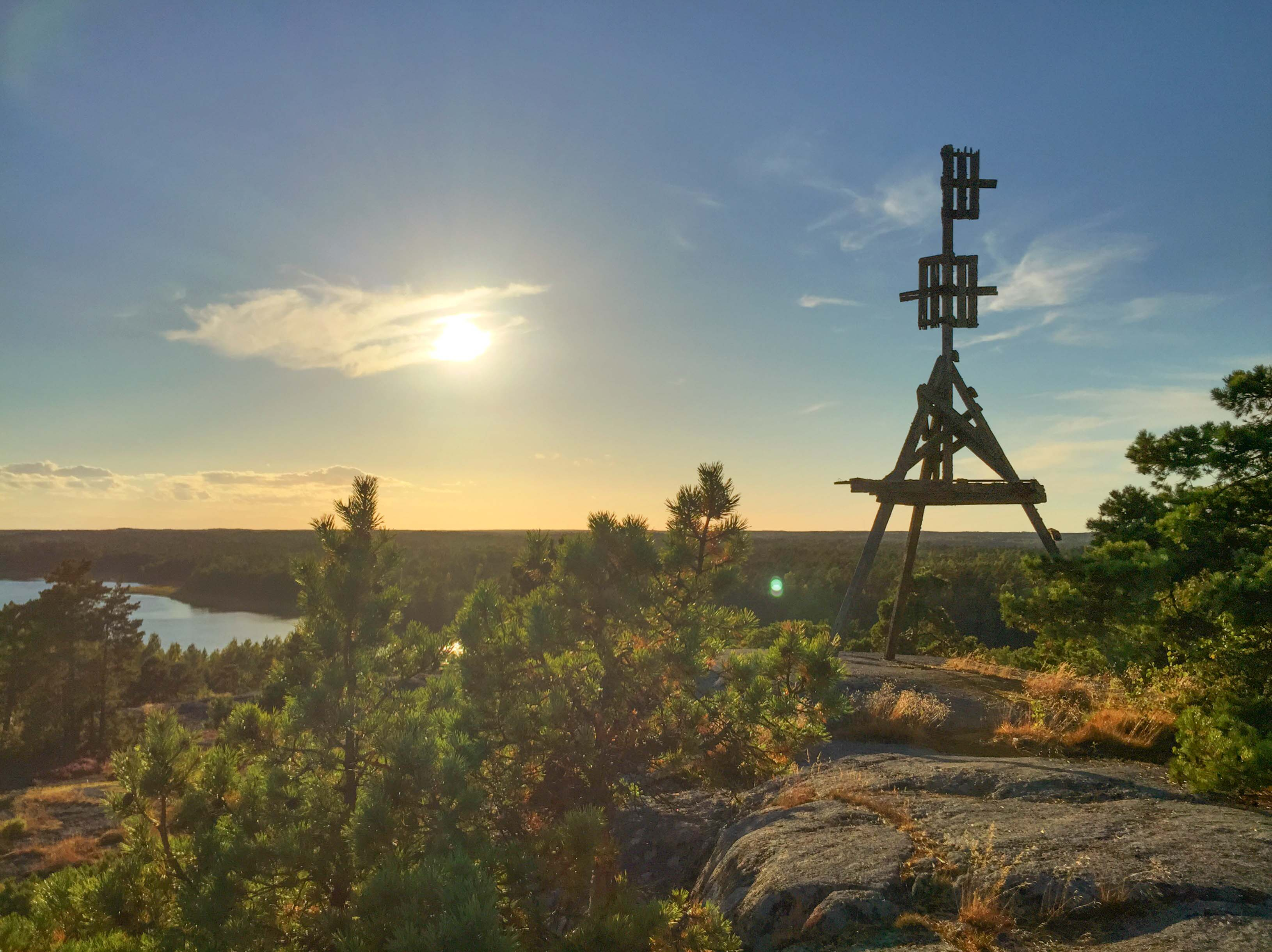 Tower of Smörasken from on top